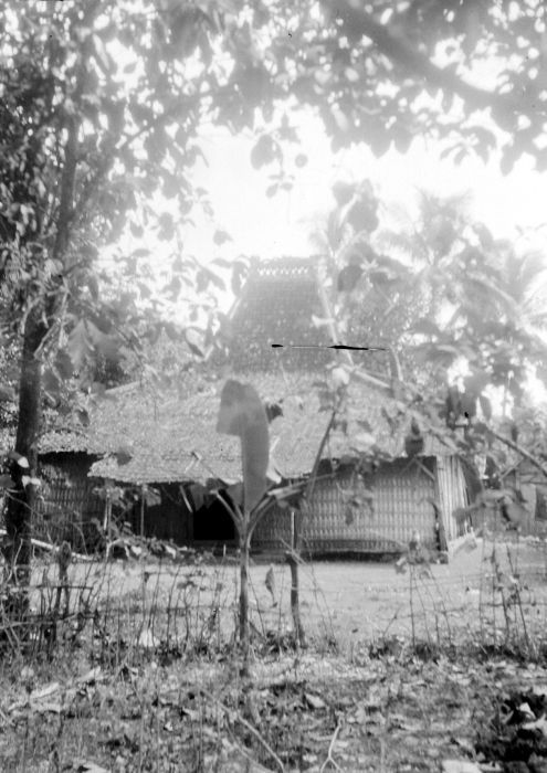 House near Trinil